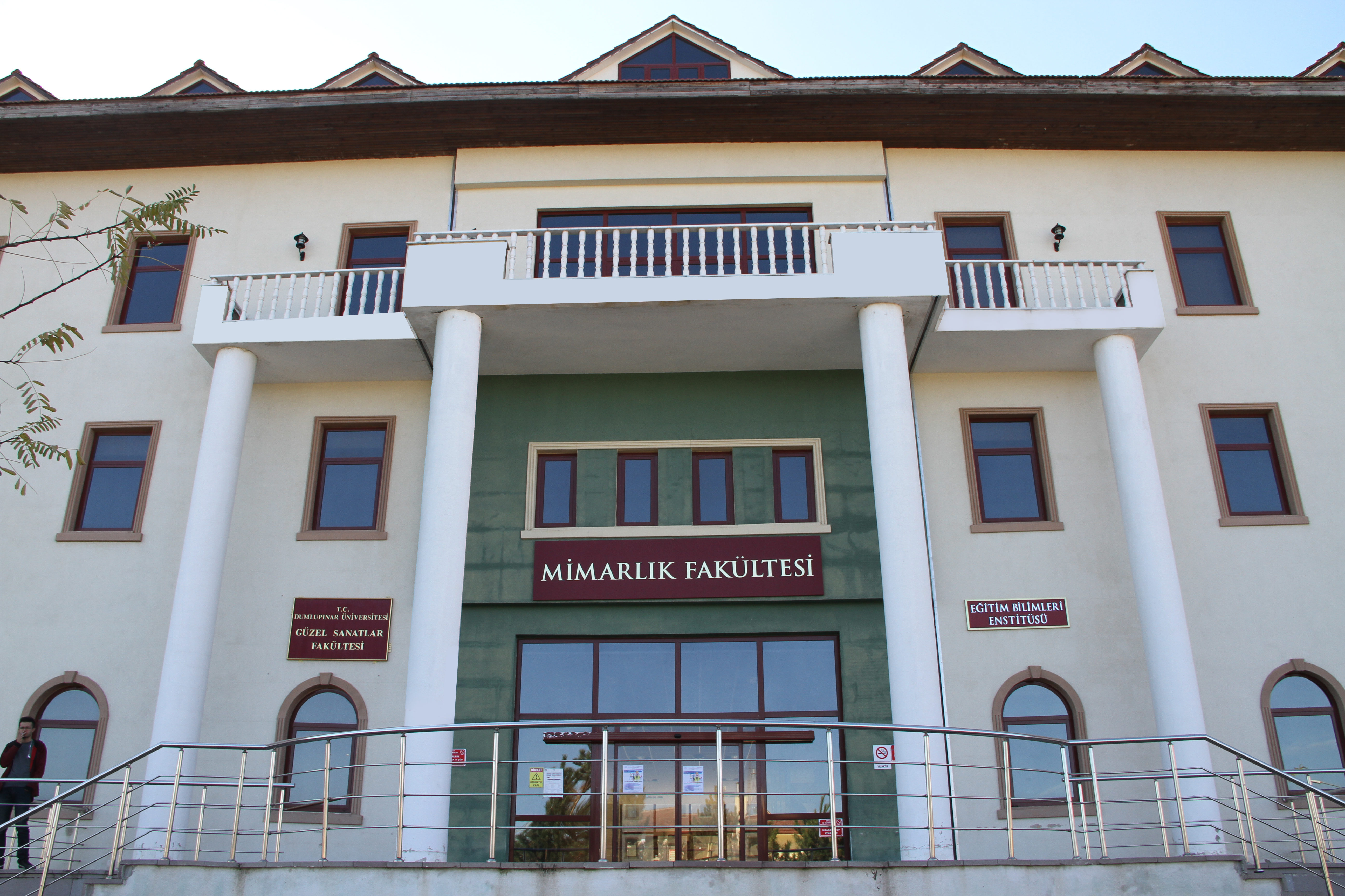 Kütahya Dumlupınar University Faculty of Architecture